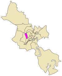 position of Tan Phu district in an outline of the metropolitan area of HCMC (Ho Chi Minh City, Vietnam) - ISO code VN-F-HC. Keywords: map, outline, city, Ho Chi Minh City, HCMC, HCM, Tan Phu district, quan Tan Phu.